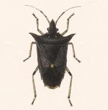 Biologia Centrali-Americana - Proxys victor Cut-out from original (Biologia Centrali-Americana (8272529454).jpg) shown below